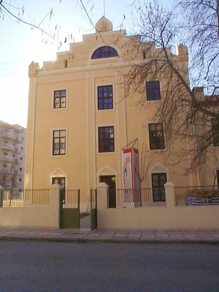 View from outside, image from the State Museum of Contemporary Art, Thessaloniki, Central Macedonia, Greece